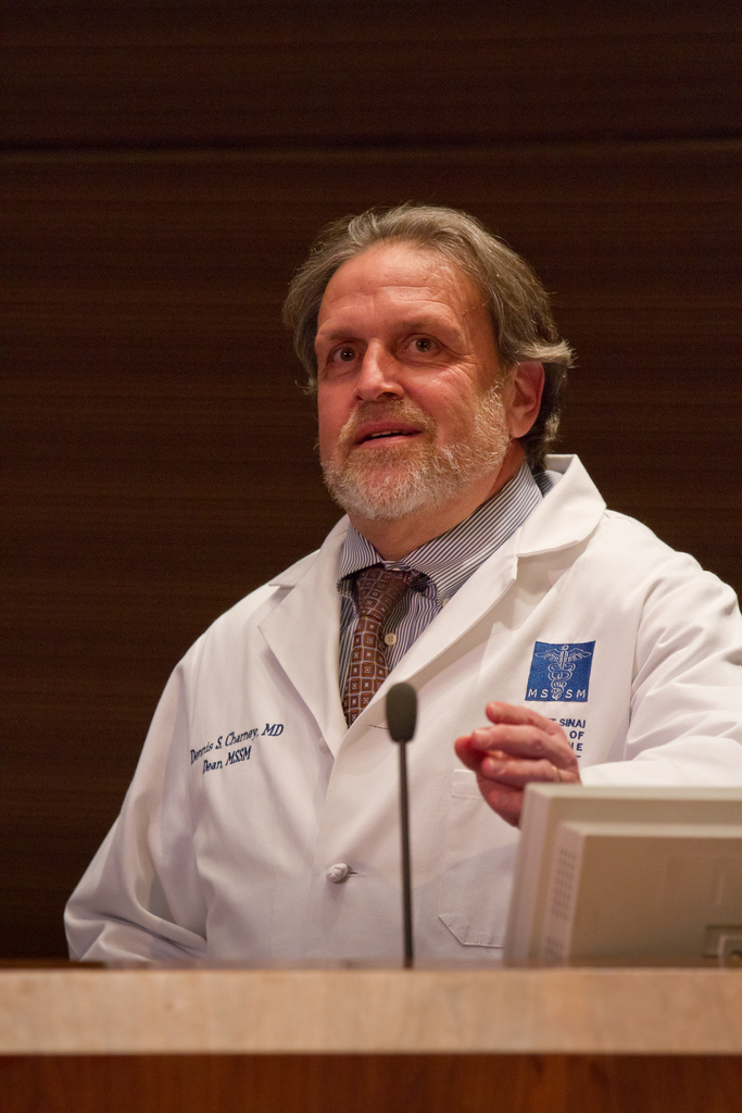 Dennis S. Charney